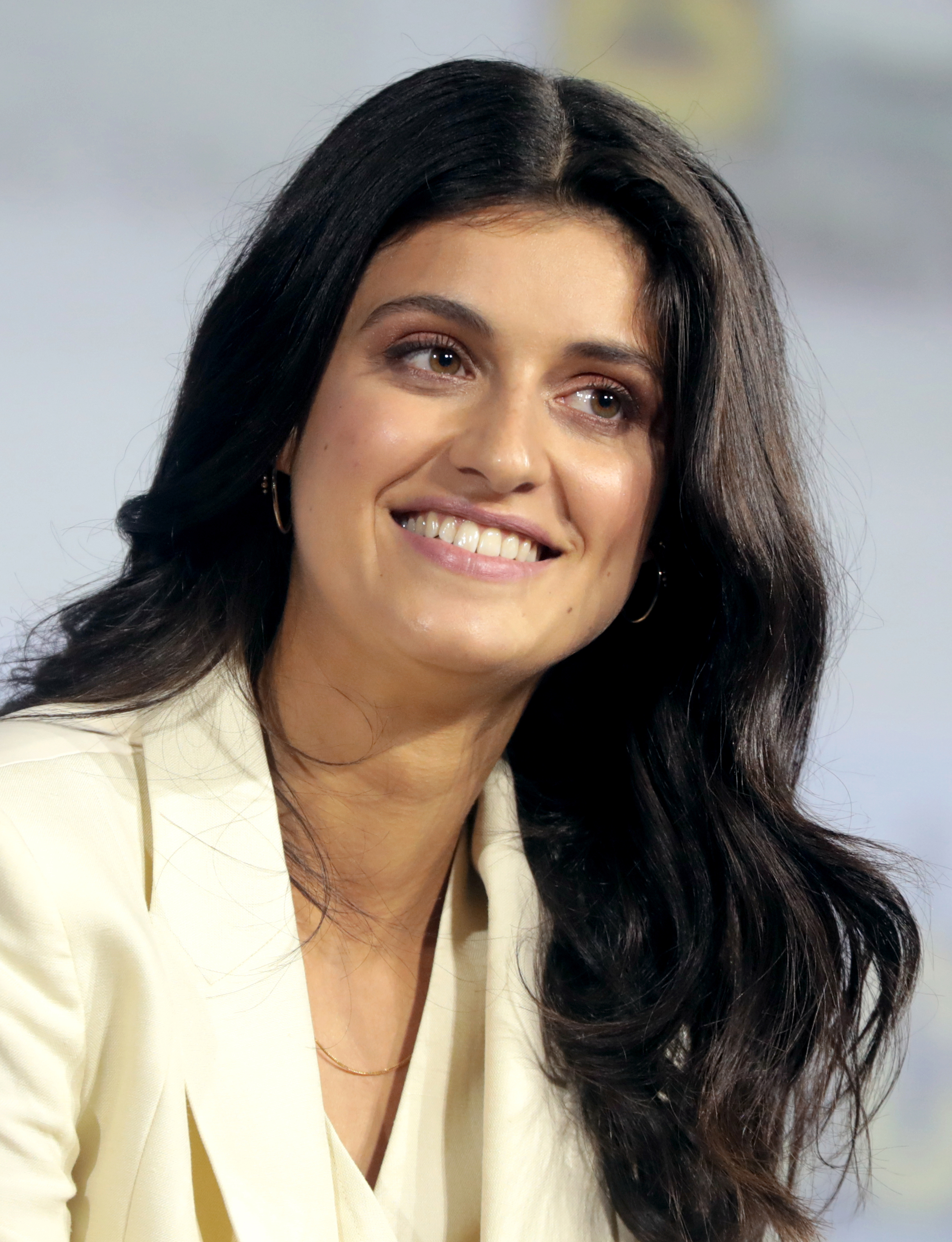 Anya Chalotra speaking at the 2019 San Diego Comic-Con International in San Diego, California.